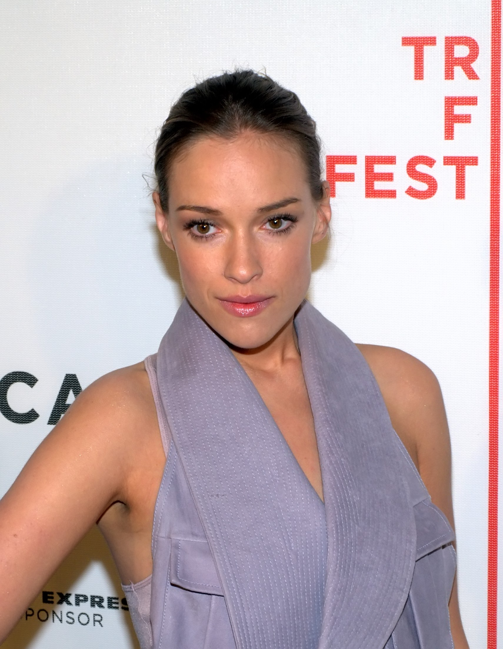 Alicja Bachleda-Curuś at the premiere of Ondine at the 2010 Tribeca Film Festival.